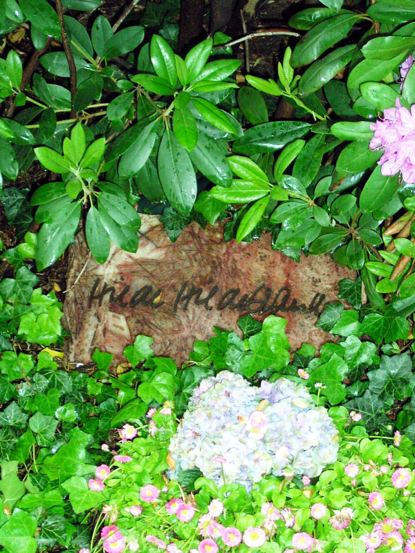 Grabstein Hilde Hildebrand, Friedhof Heerstraße, Berlin